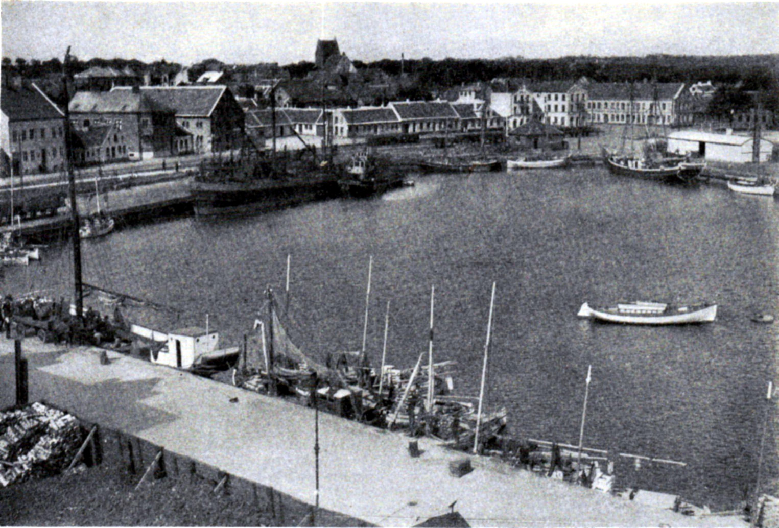 Simrishamn, small town in southern Sweden, the harbour, photo from the photo archives of STF (Swedish Tourist Association), published in the book Svenska orter (1932)